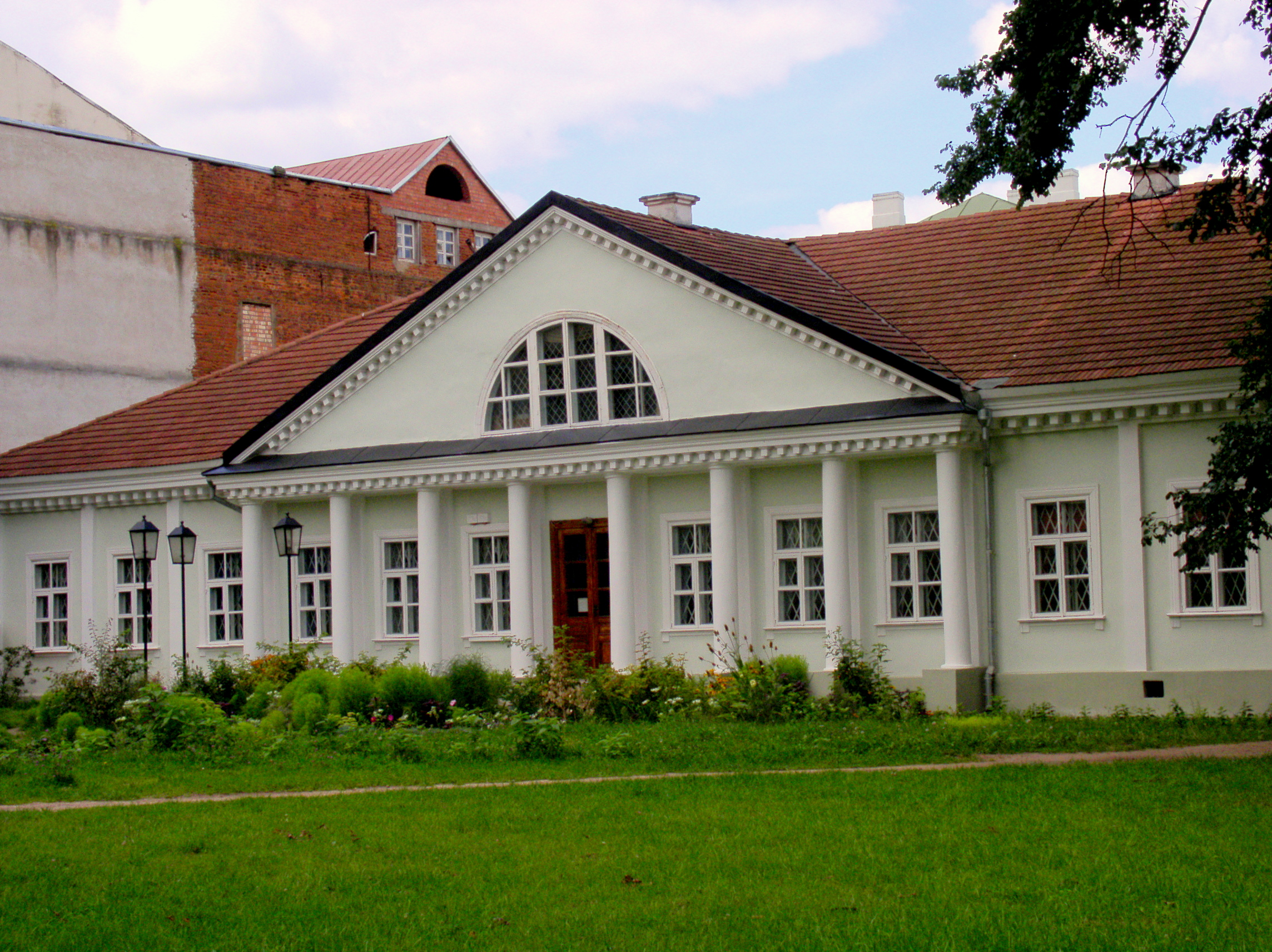 Manor of Vankovich family in Upper town. Minsk, Belarus.